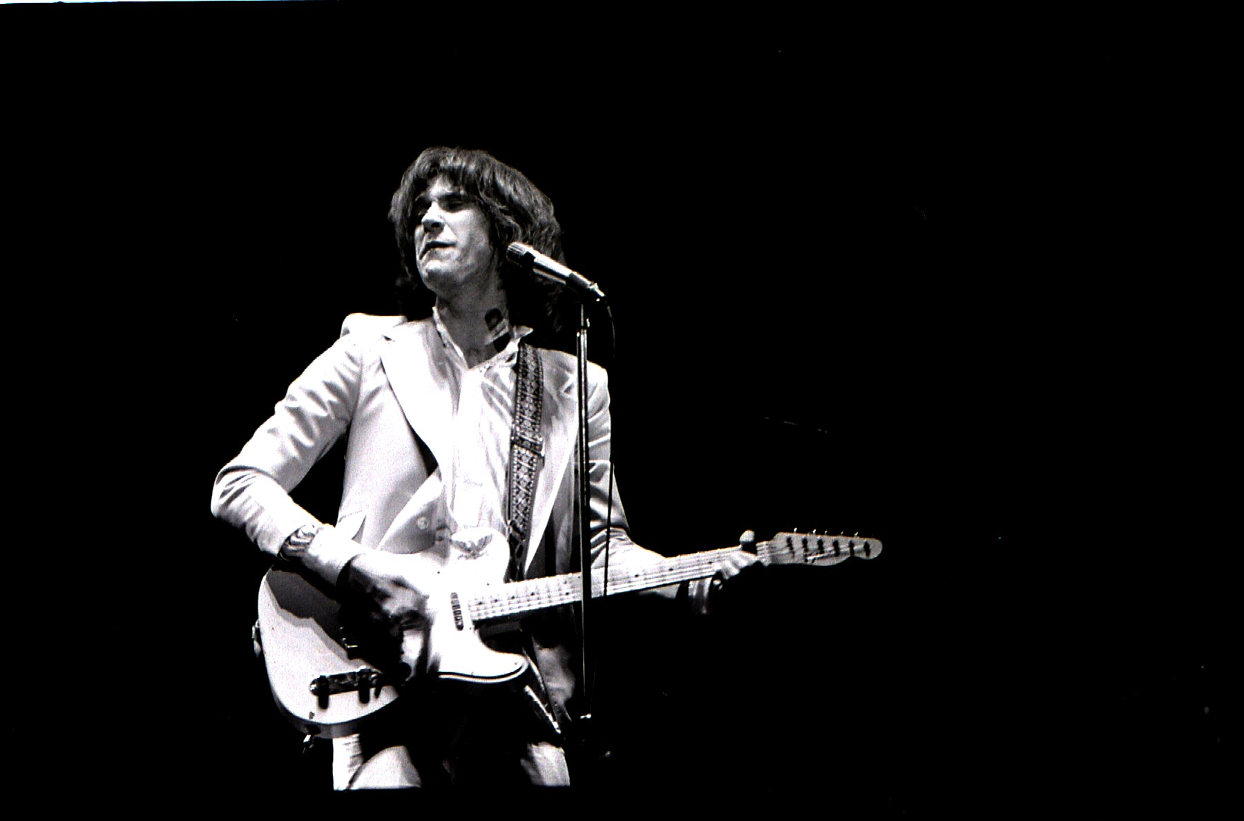 Maple Leaf Gardens, Toronto, April 29, 1977